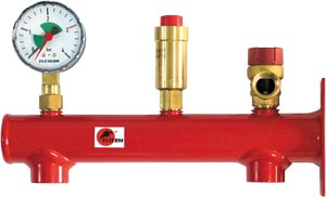 Safety Units for central heating